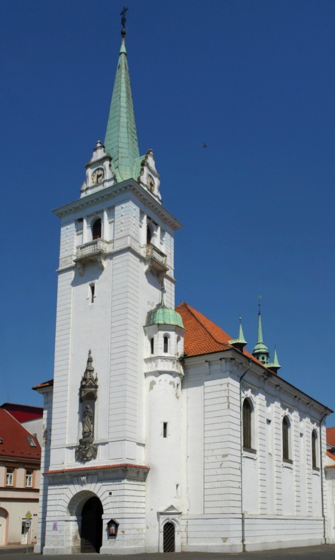 Church of the Nativity of the Virgin Mary, Trmice, District Ústí nad Labem